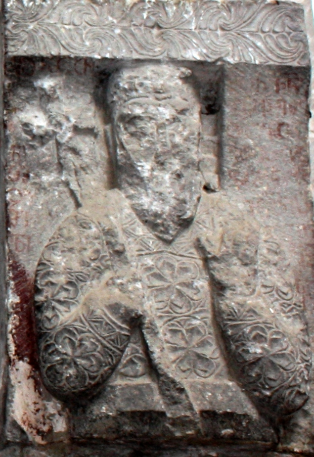 A bas-relief from the medieval Georgian cathedral of Oshki depicting Prince Bagrat, Duke of Dukes